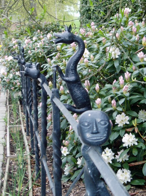 Railings outside Skirling House, Peeblesshire. Skirling House was designed by the architect Ramsay Traquair in 1908. Both the interior and the exterior incorporate many features of the Arts and Crafts movement, including the railings illustrated.